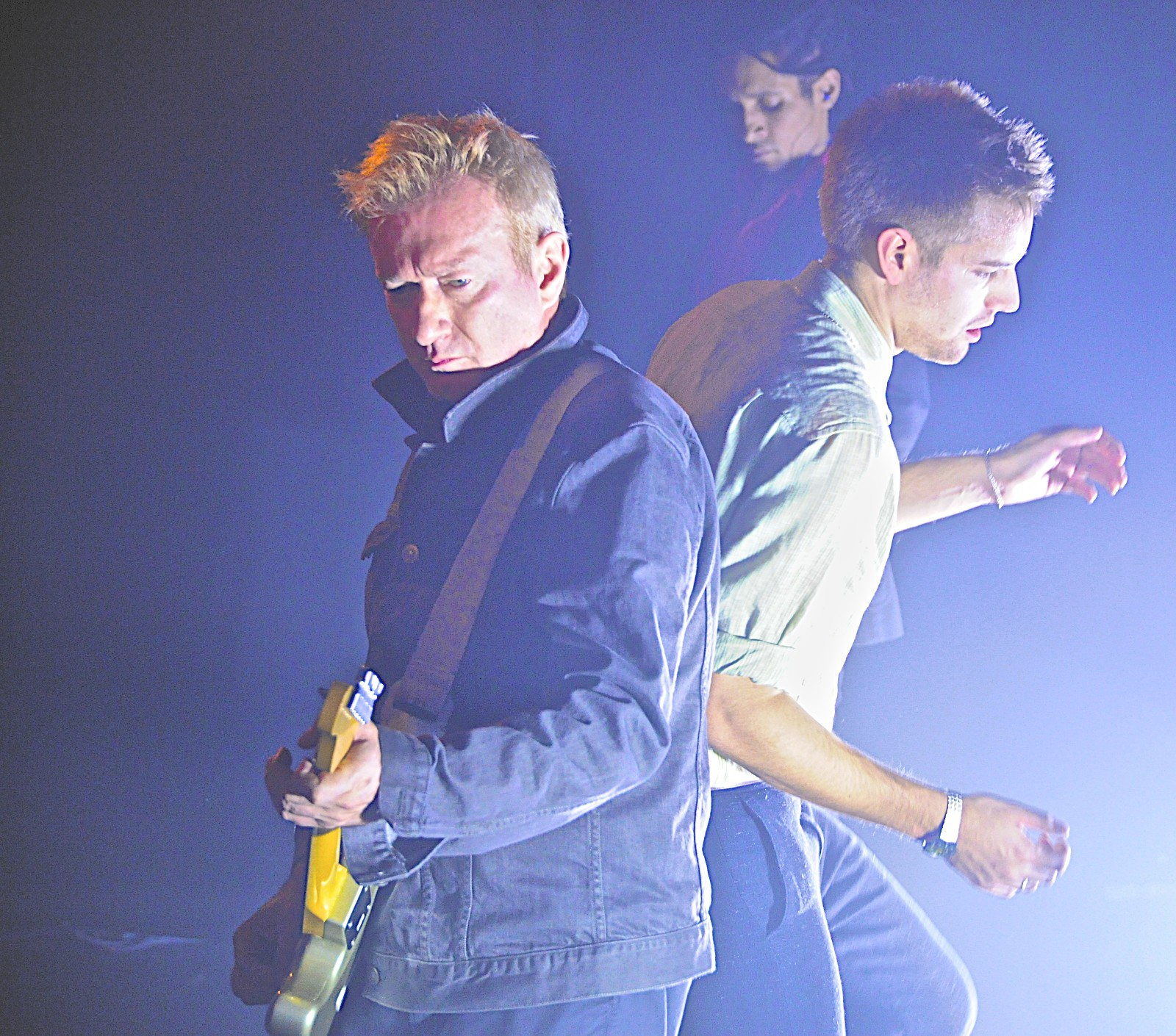 Depicted people: Andy Gill, Thomas McNeice and John Sterry – of the band Gang of Four